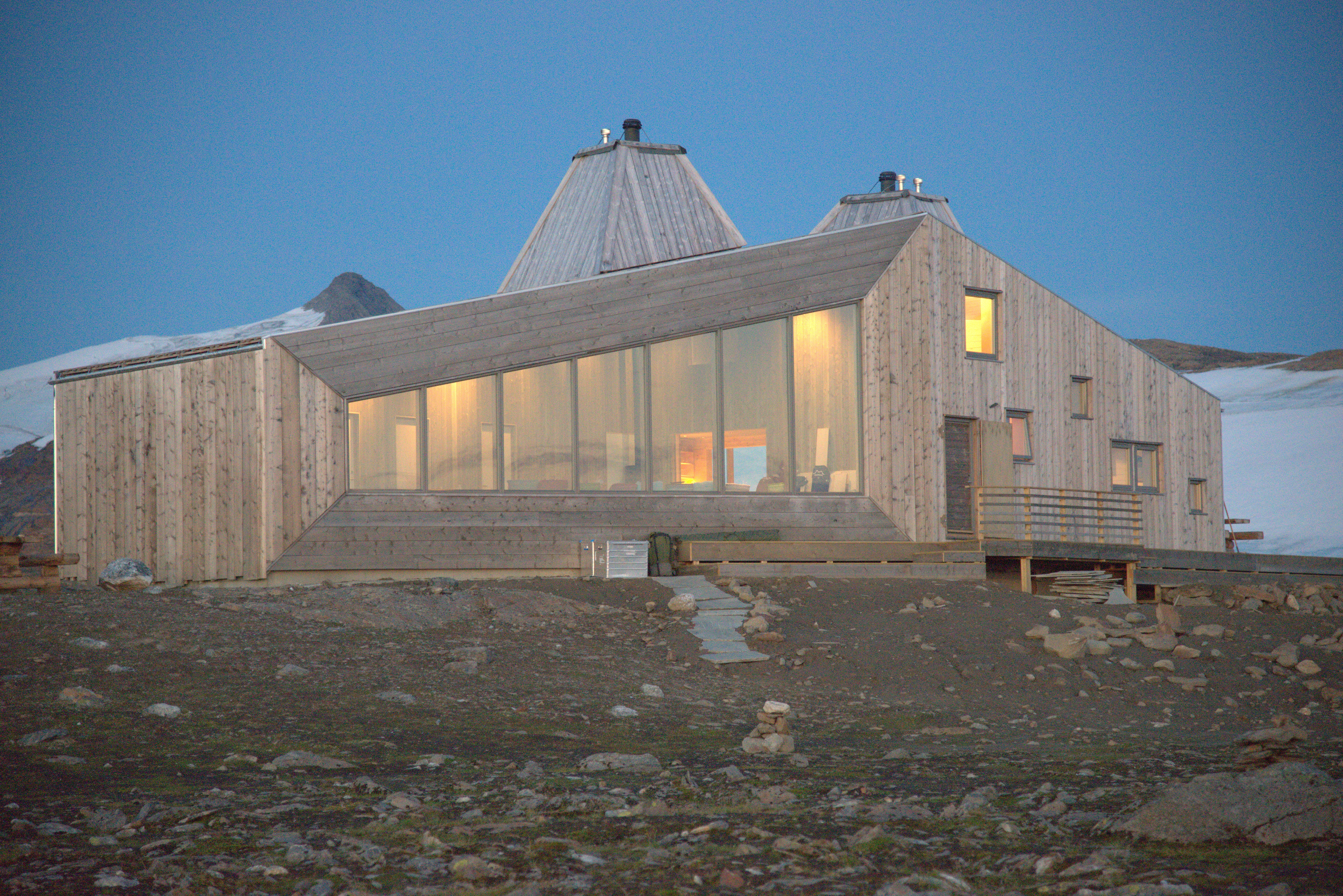 The Rabothytta tourist Cabin in Okstindan, Helgeland, Norway. Owned by Hemnes Turistforening.